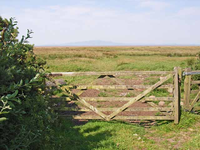 Solway marshes at Carndurnock. The peak of Criffell, near Dumfries, can be clearly seen in the distance